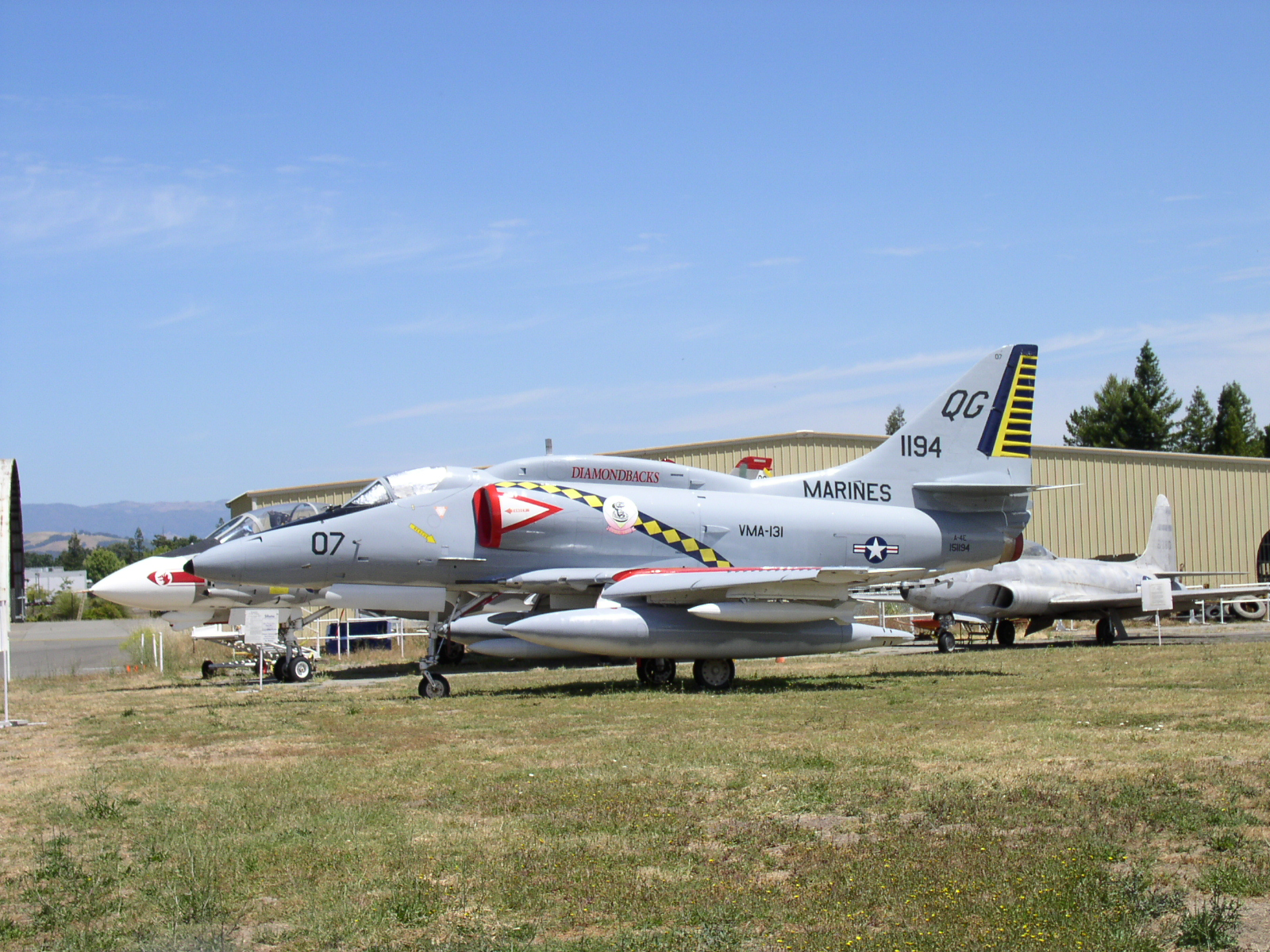 A Douglas A-4E Skyhawk (BuNo 151194) in the colours of U.S. Marine Corps Reserve Attack Squadron VMA-131 Diamondbacks at the Pacific Coast Air Museum, Santa Rosa, California, USA.